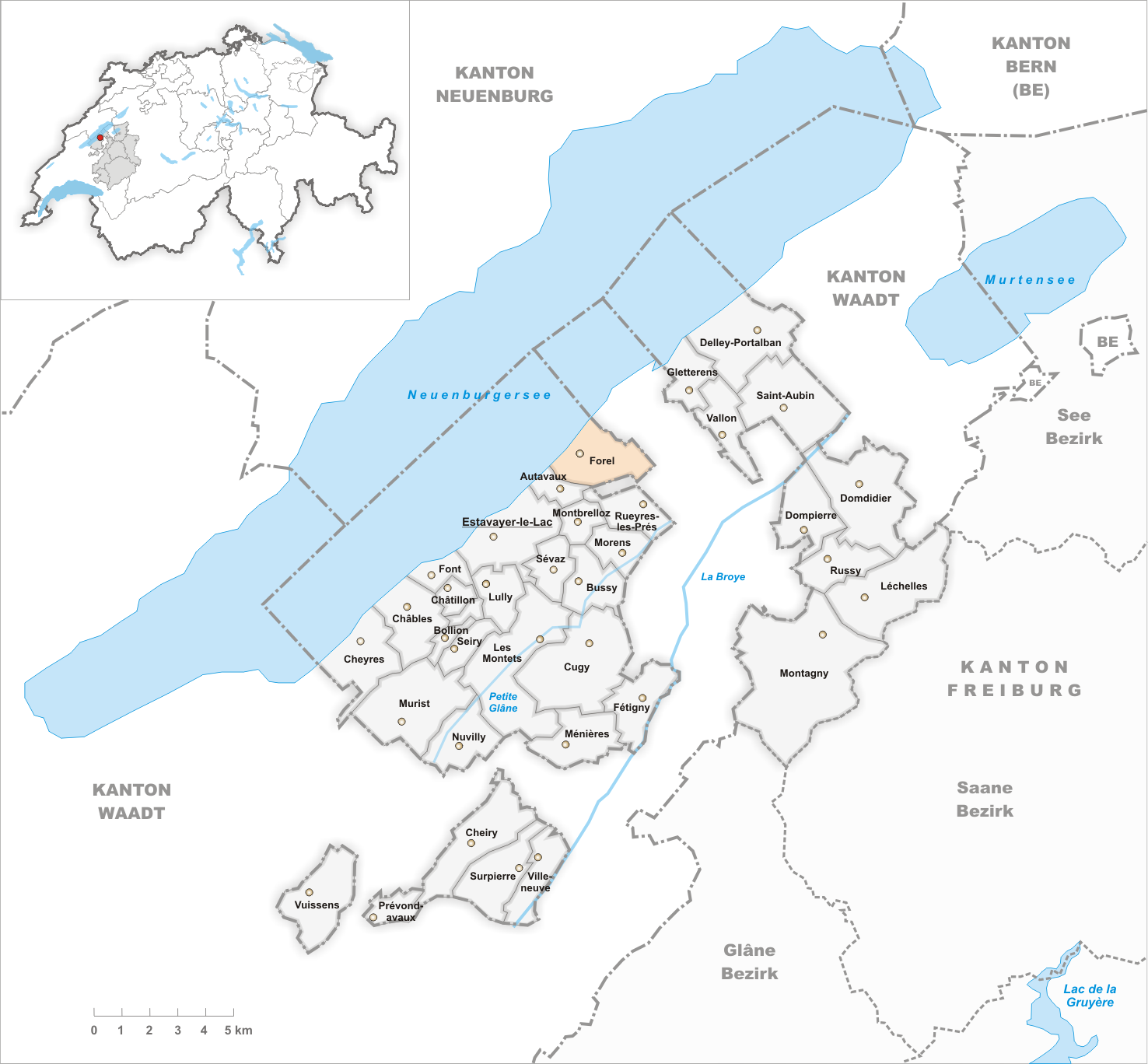 Municipality Forel Artist: Tschubby